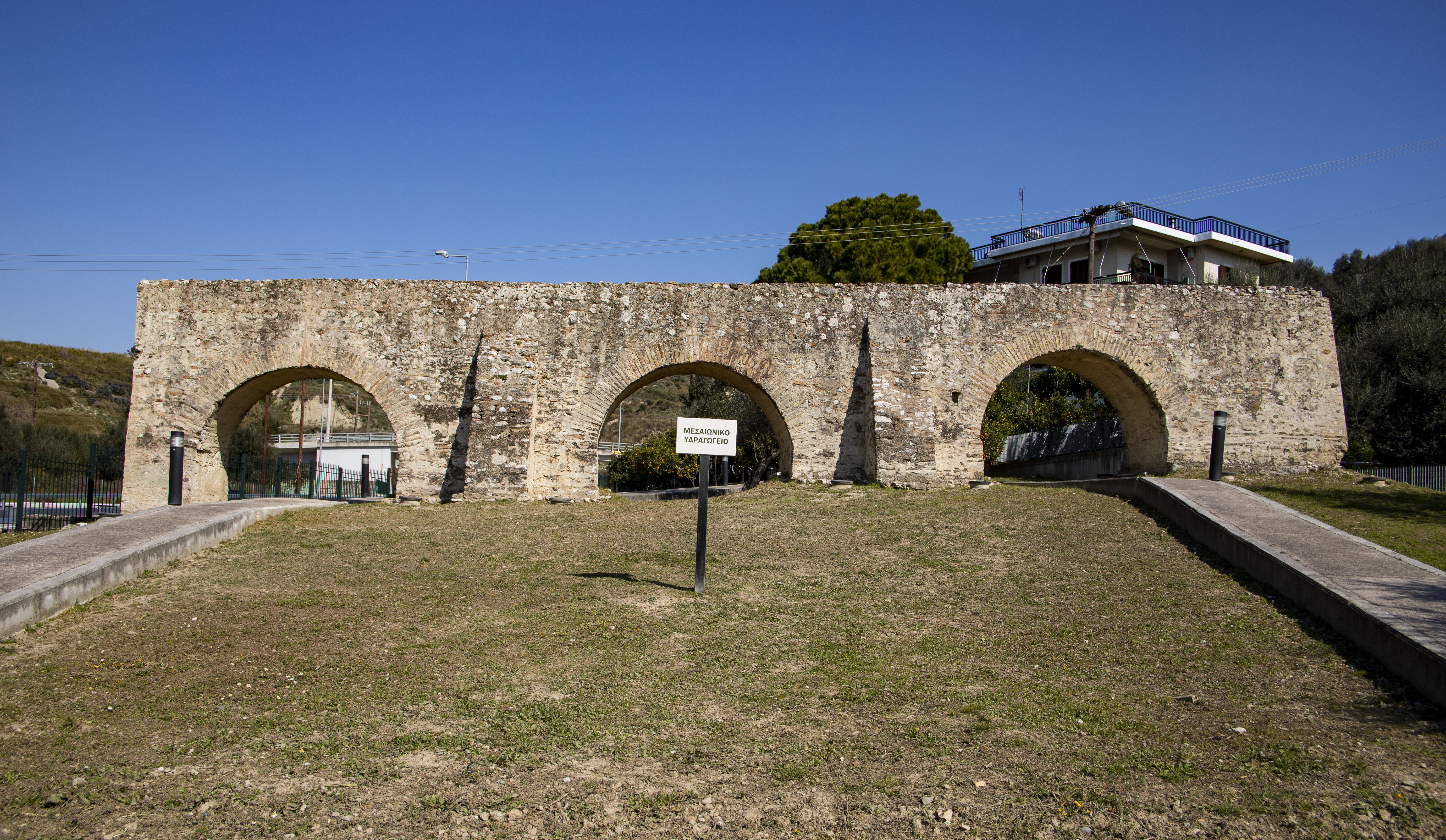 Part of the Medieval aqueduct that had to be moved after the short Patras' bypass construction.